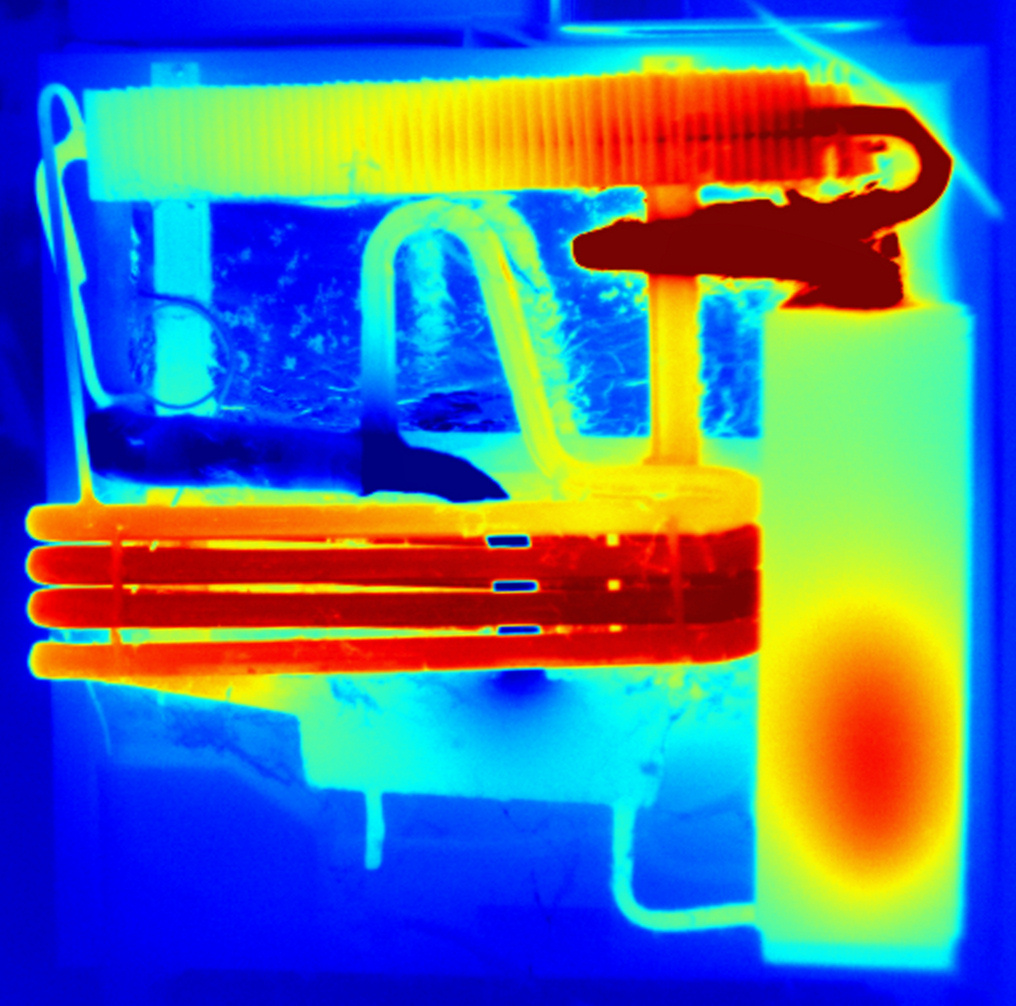 Thermal image of a domestic absorption refrigerator. Image made with a Therm-App Pro 640 x 480 thermal camera, ThermViewer software. Stitched from several images in Microsoft Image Composite Editor. Uncalibrated image; blue indicates relatively cold (~room temperature); red is hottest (in this instance 'very hot to the touch of one's hand but not quite burning'). Image intended to show the general distribution of temperatures in the working sections of the refrigerator.